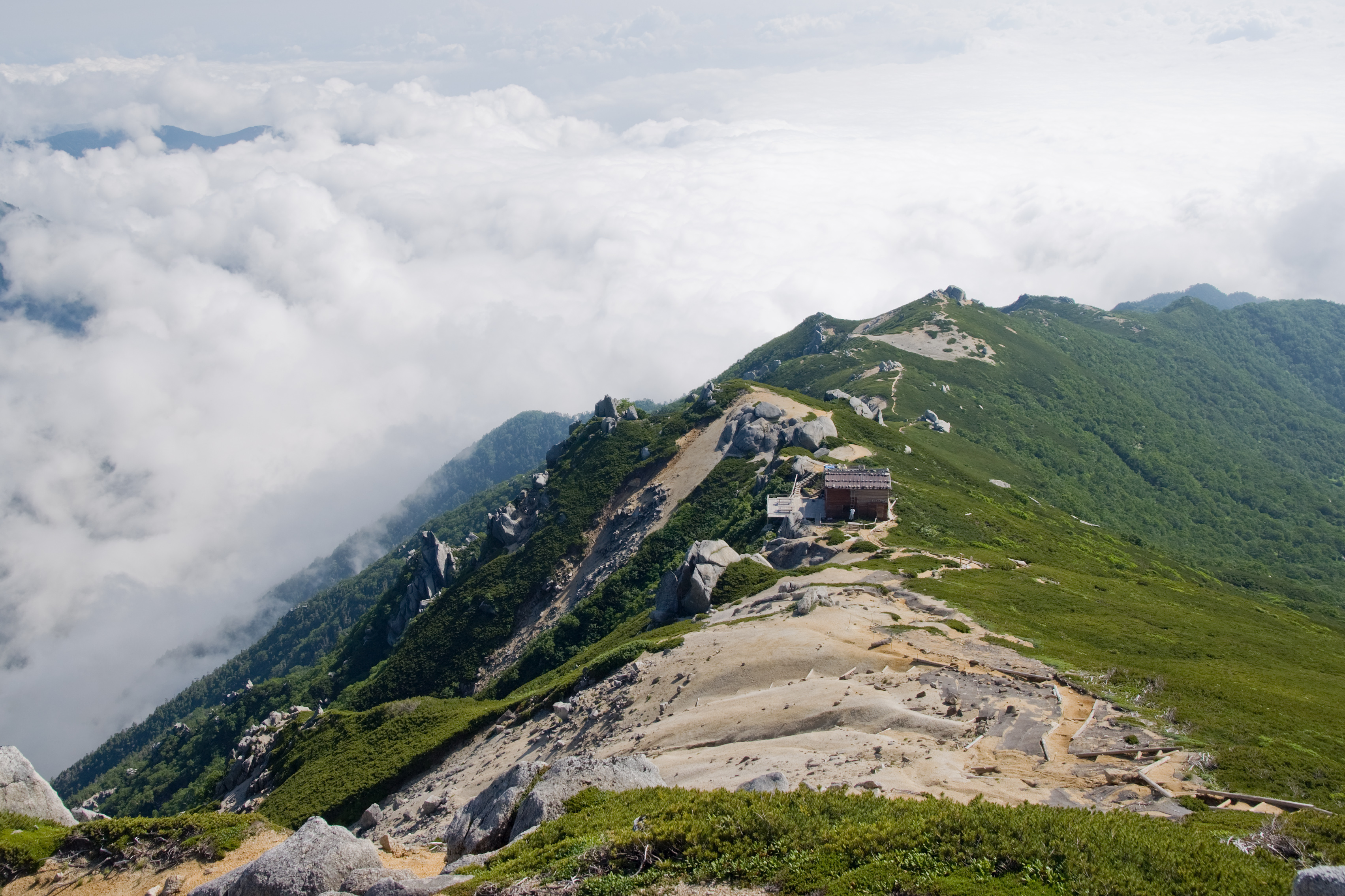 Utsugi-komahō hutte, Kiso Mountains, Nagano, Japan.